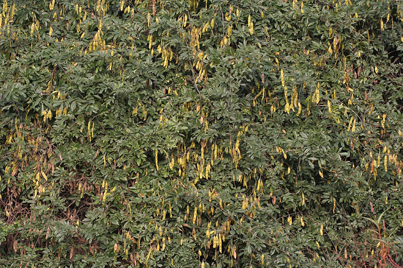 Garudwel, Mota sirili or Hog Creeper Derris scandens syn. Dalbergia scandens in Hyderabad, India.